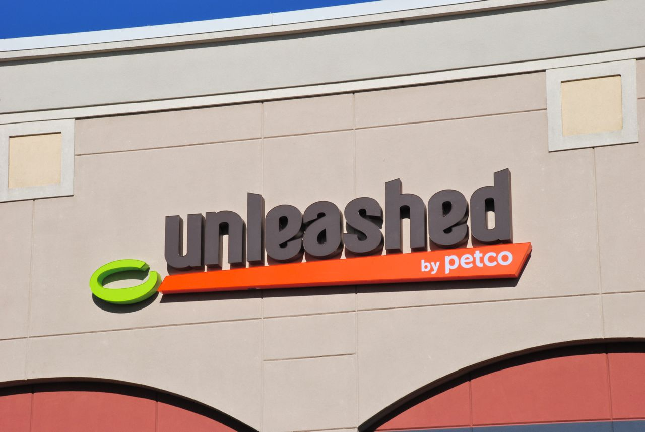 Sign on the side of "Unleashed by Petco" store, newly opened at the time. This store is in the Bethany Village shopping center, in the westside suburbs of the Portland, Oregon metropolitan area.